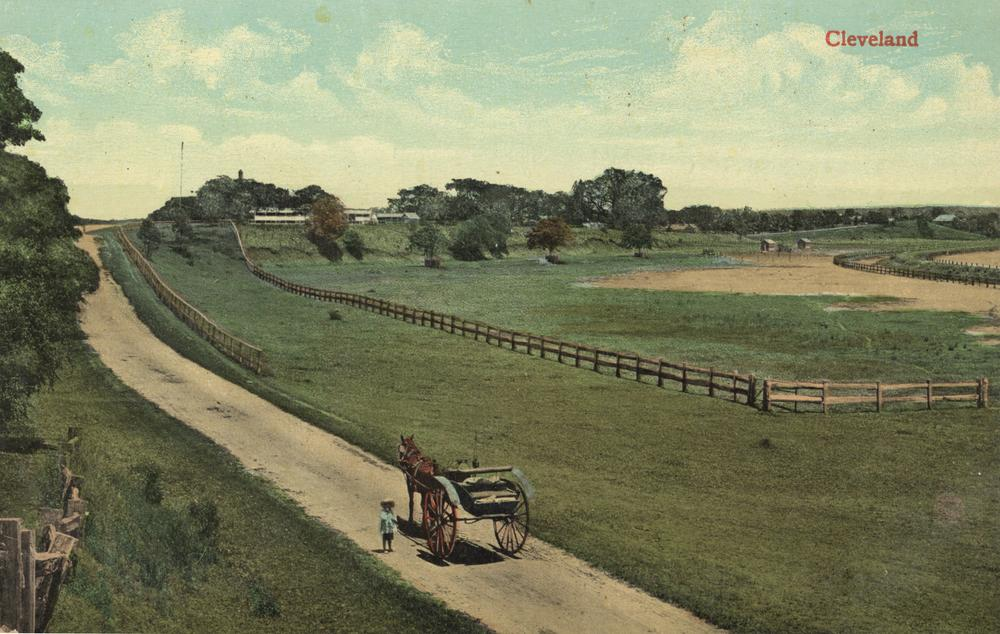 Shore Street, ca. 1907. Shore Street, Cleveland looking south. Brighton Hotel, renamed Grand View, ca. 1909 and be seen at the top of the hill. Part of the Valentine's Series of postcards.